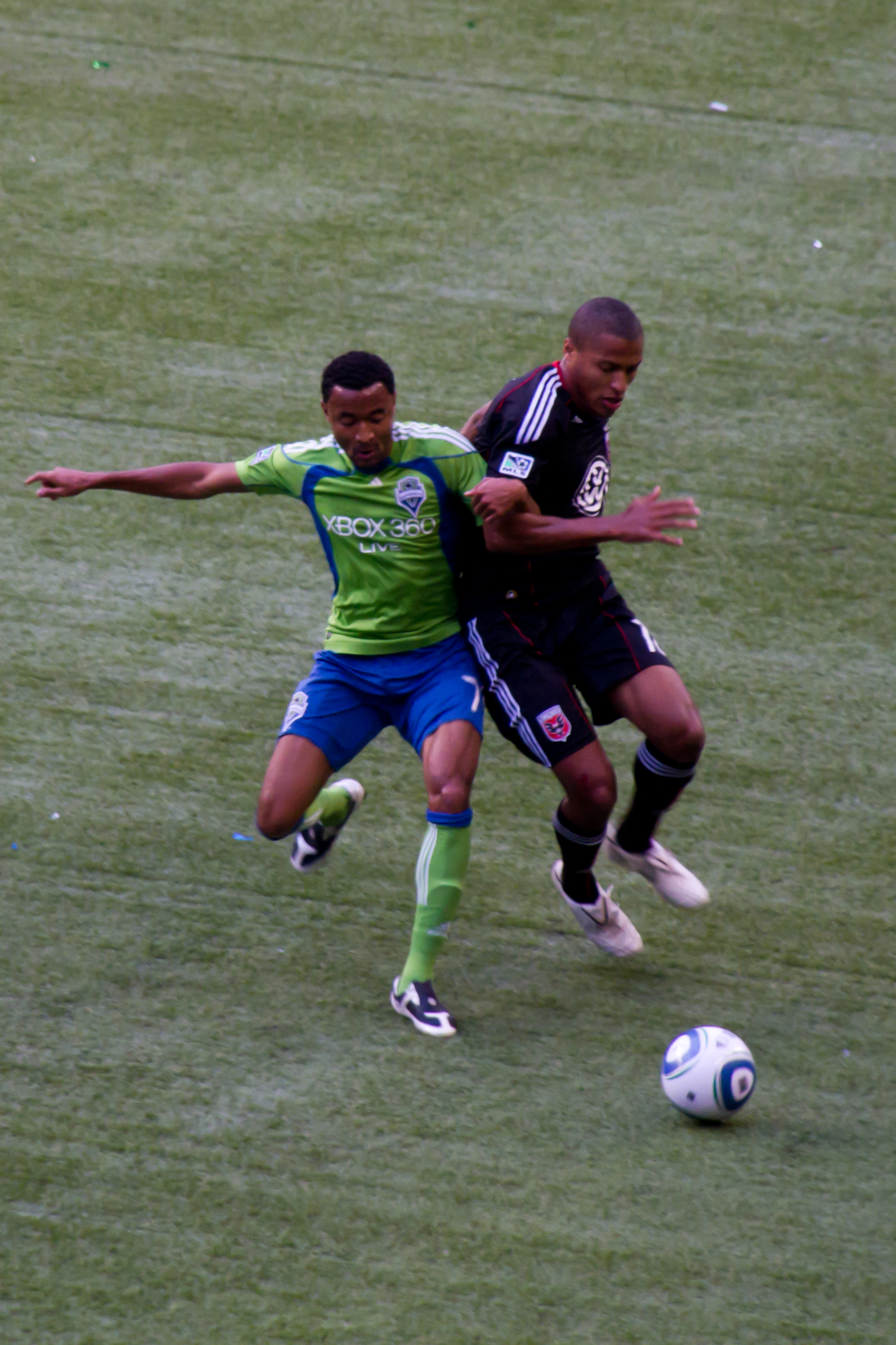 James Riley (Seattle Sounders FC) fighting Jordan Graye (D.C. United) for possession of the ball during the June 10, 2010 Seattle–D.C. match.